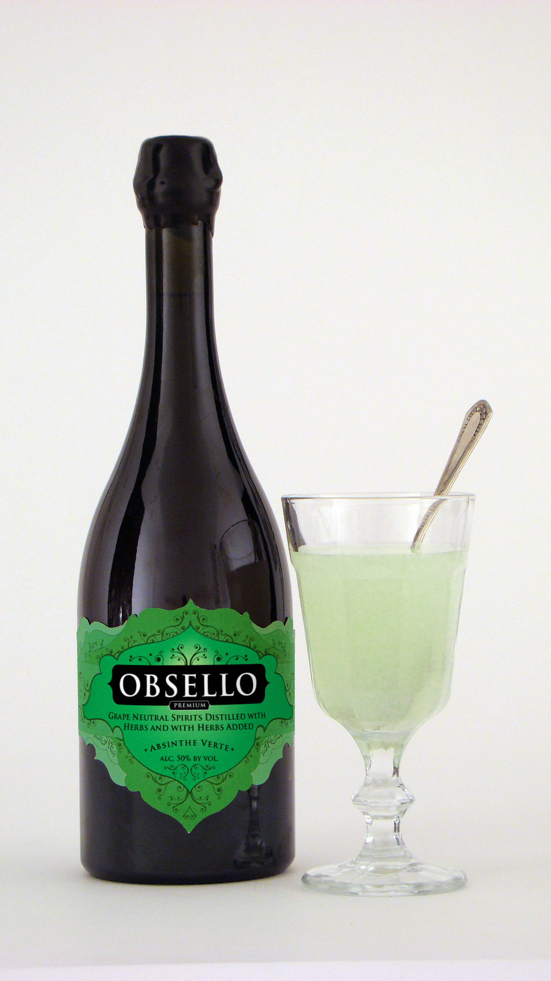 Bottle and glass of Obsello absinthe;Obsello Absinthe